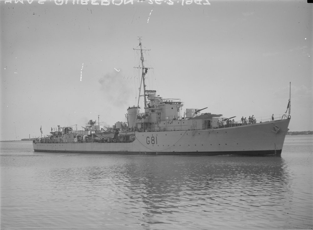 HMAS Quiberon.